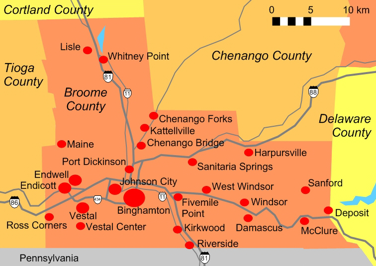 map of Broome County, NY